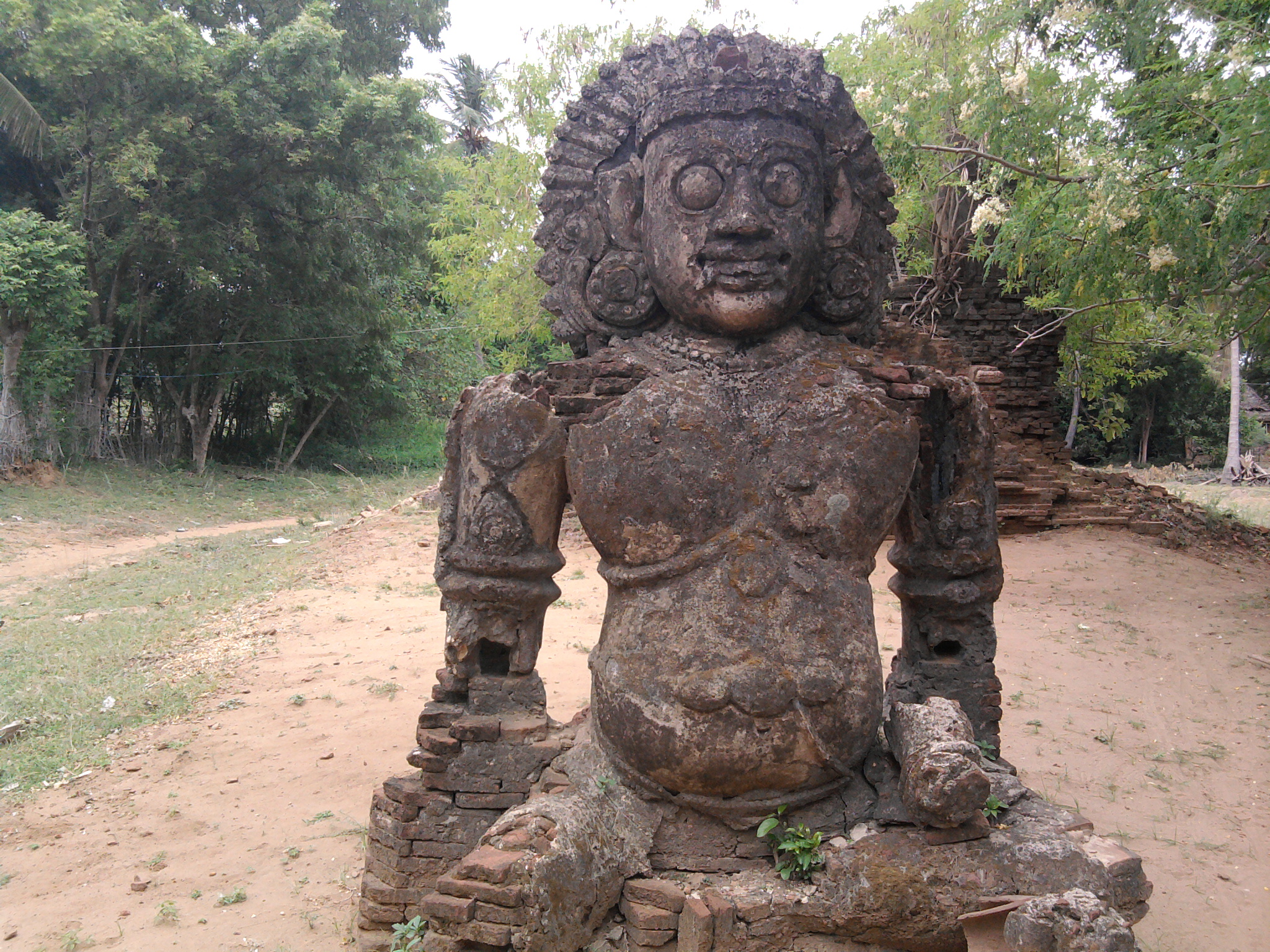 Demigod of Poompuhar.It guards the city.